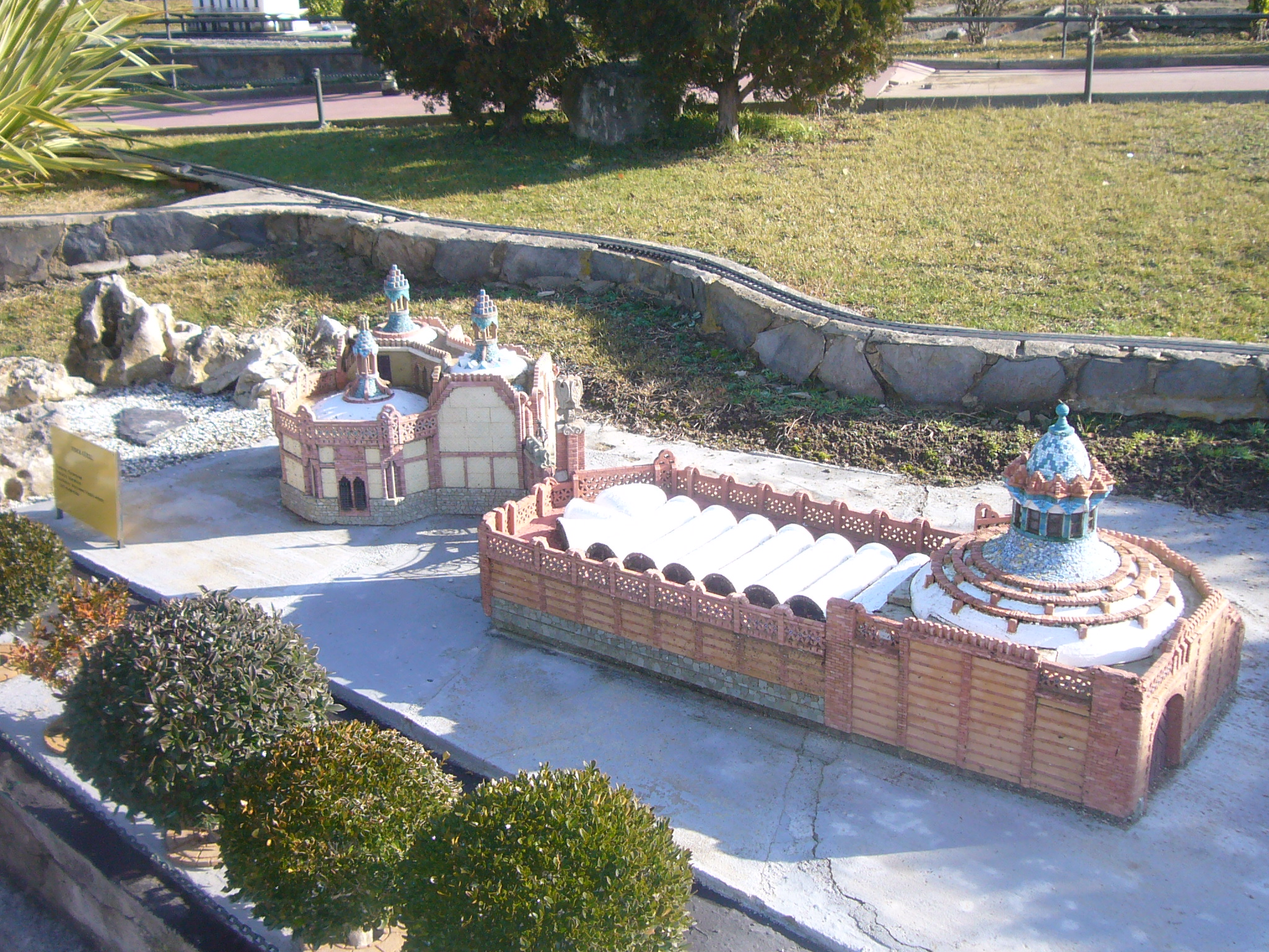 Catalunya en Miniatura-Pavellons Güell